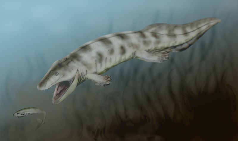 Ventastega curonica, an early tetrapod from the Late Devonian of Latvia, digital.